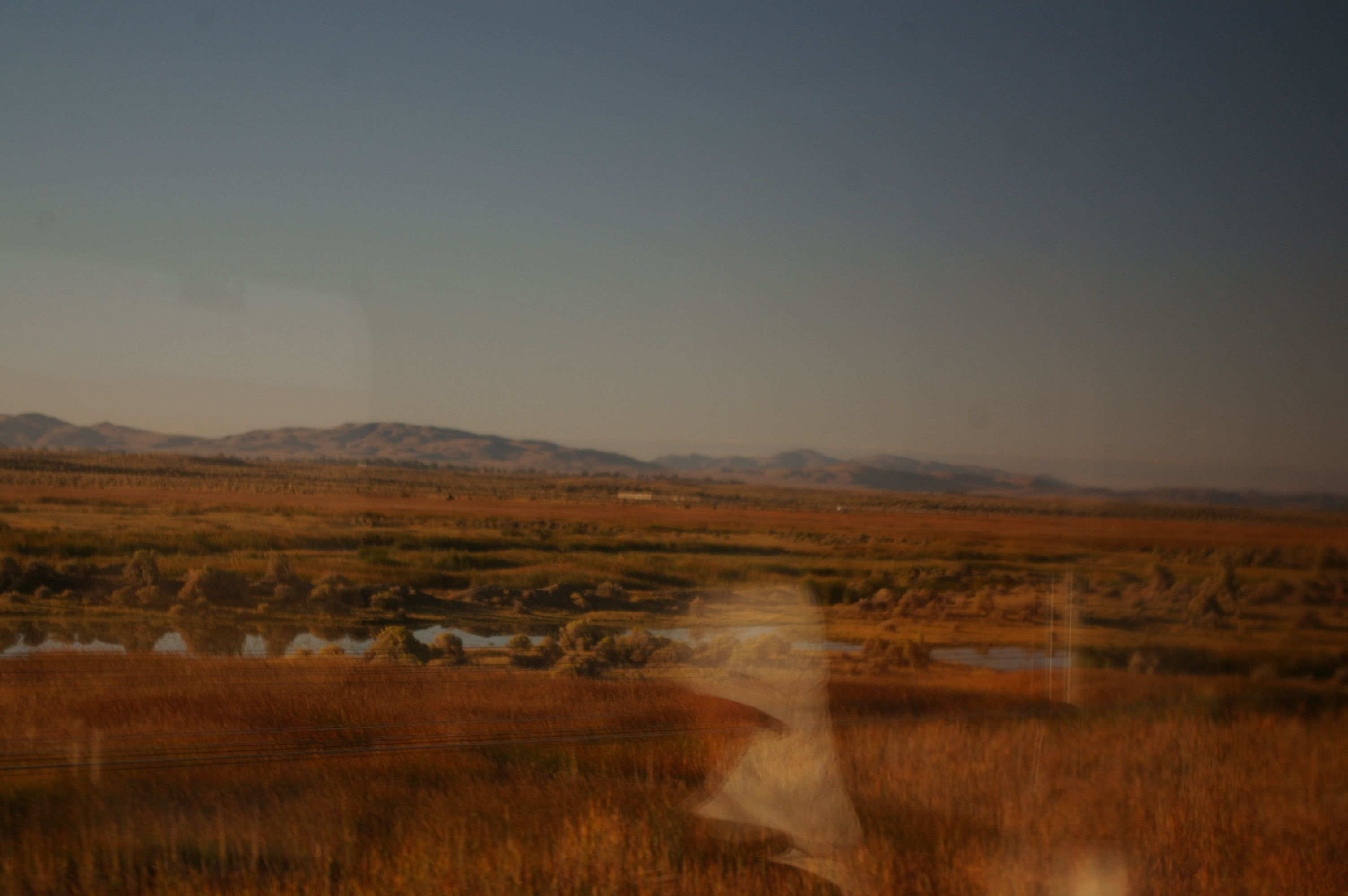 View from the California Zephyr of the Lahontan Valley with the city of Fallon faintly visible in the distance.